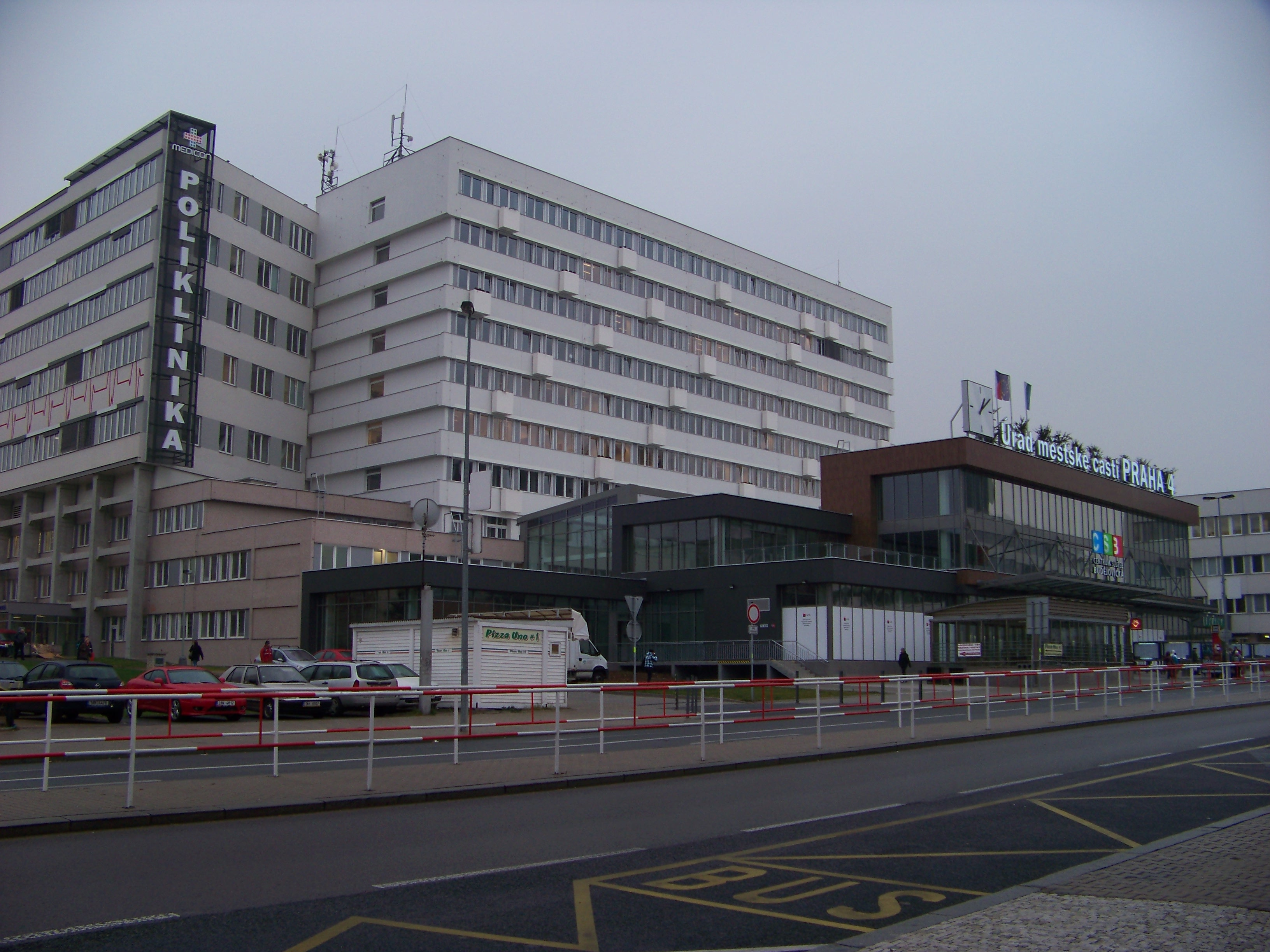 Prague-Krč, the Czech Republic. Antala Staška street, Budějovická Policlinic and Prague 4 office.